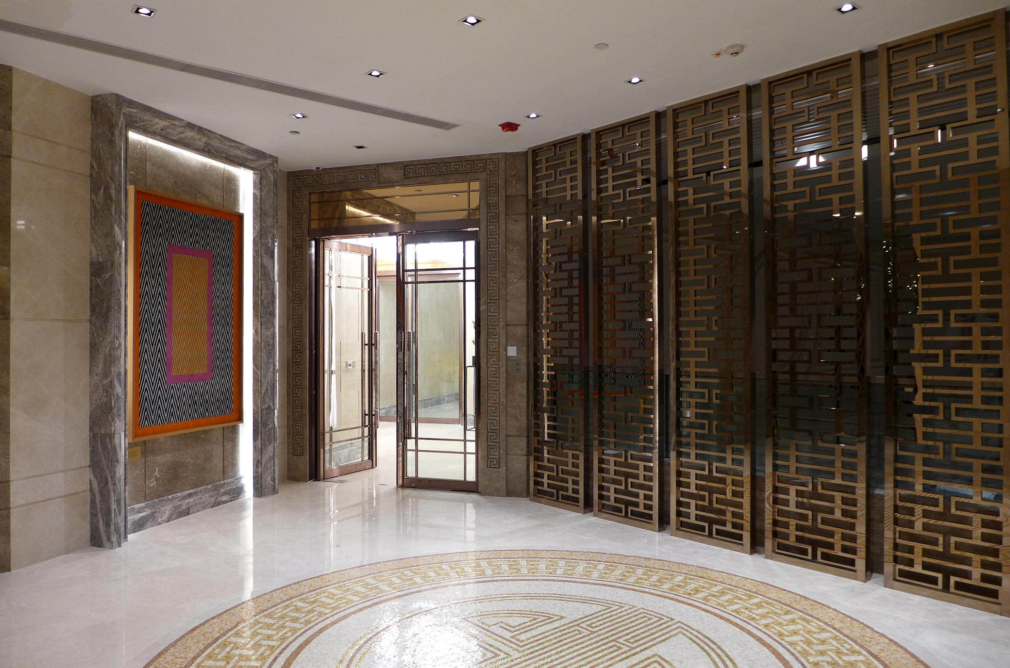 The Avenue Tower 3 lobby